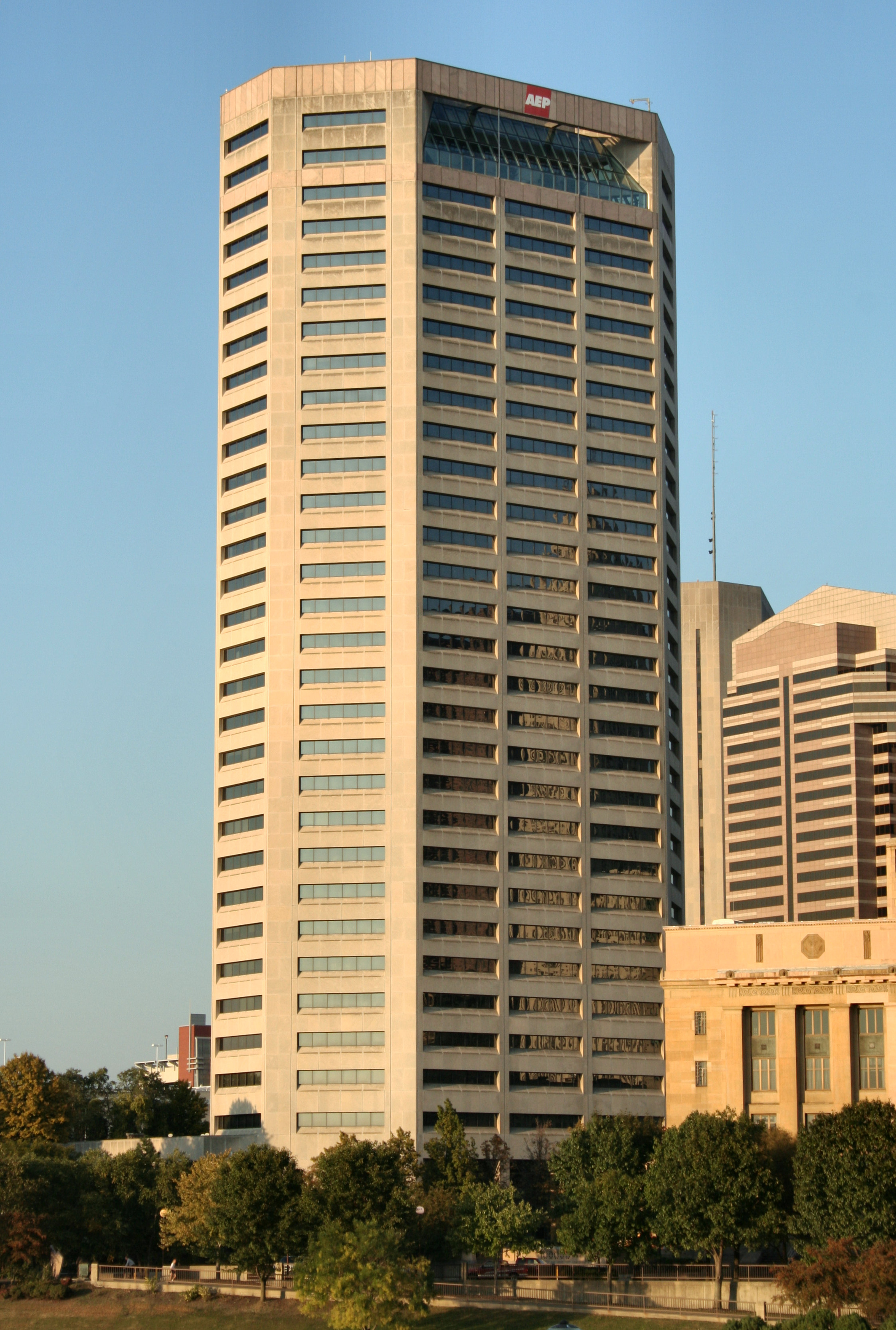 AEP headquarters building in Columbus, Ohio. Photo shot by Derek Jensen (Tysto), 2005-October-05